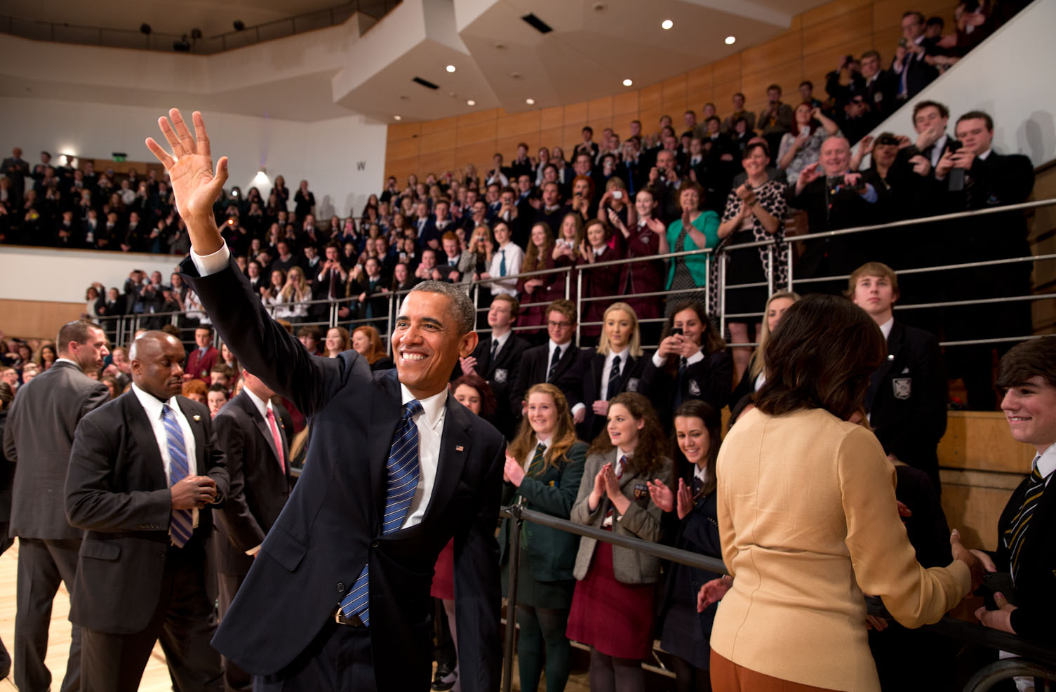 United States President Barack Obama and Michelle Obama at the Waterfront Convention Centre in Belfast, Northern Ireland on 17 June 2013.